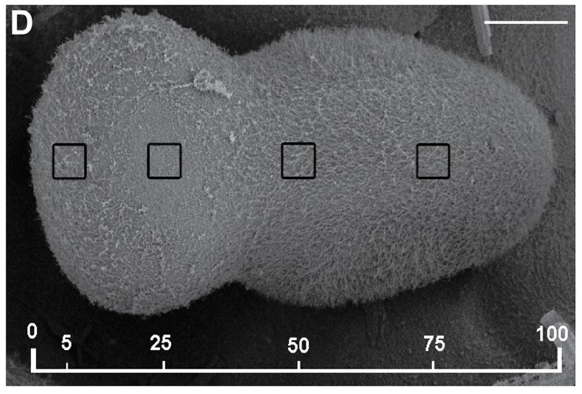 Hair cell bundles count locations on the R. pulmo rhopalium. Hair cells counts were sampled at four predetermined locations: 5, 25, 50 and 75% of the total rhopaliar length. A 900 μm2 box was placed at each sampling area and hair cells were counted within each box. (ca: rhopalar canal, st: statocyst) Scale bars